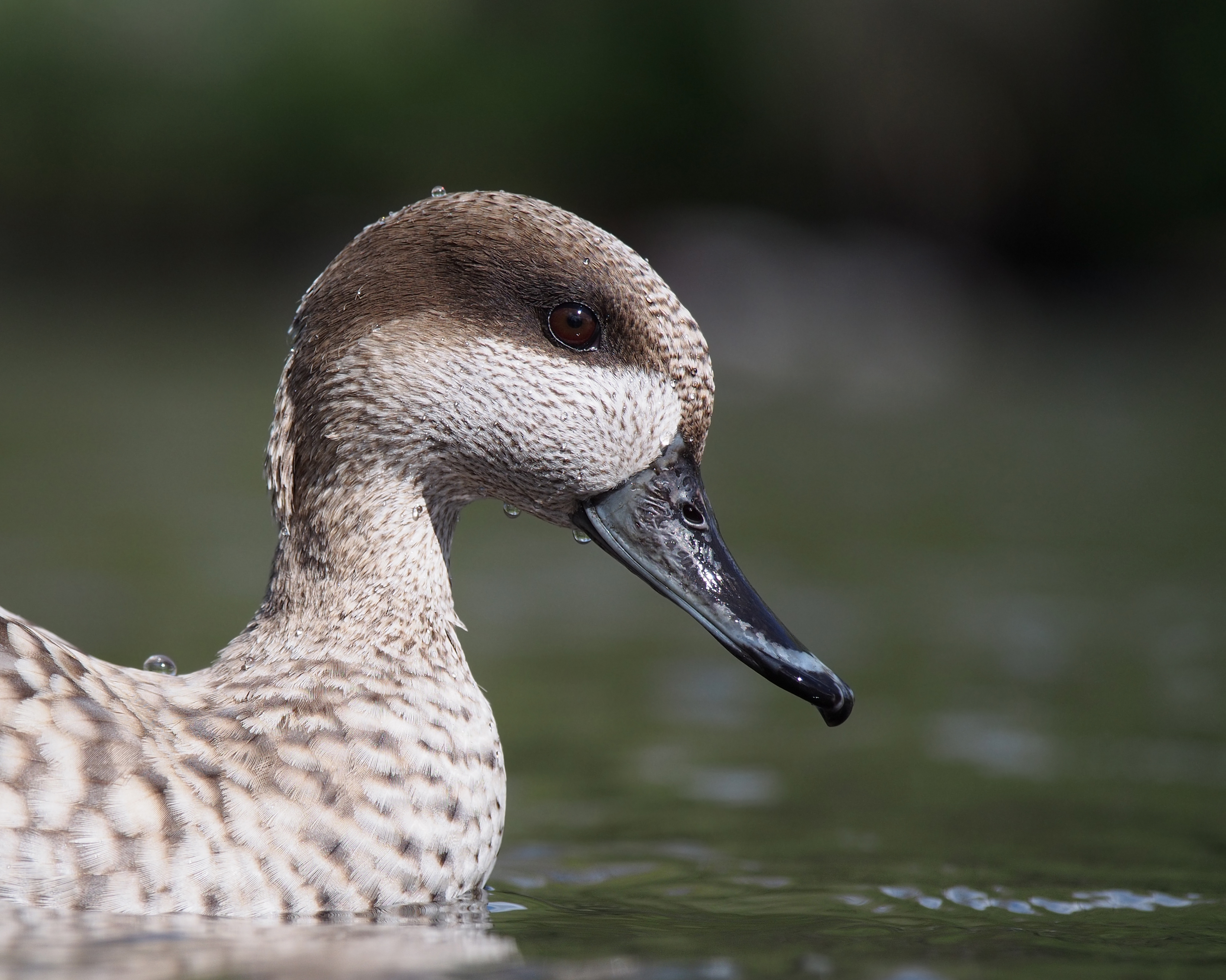 Marbled Teal, Marmaronetta angustirostris, portrait. Martin Mere, Lancashire, UK